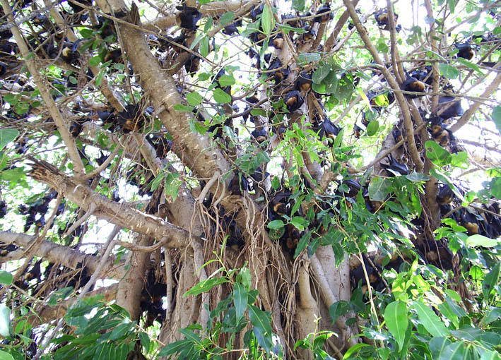 Fruit bats on Banyan tree in Andhra Pradesh